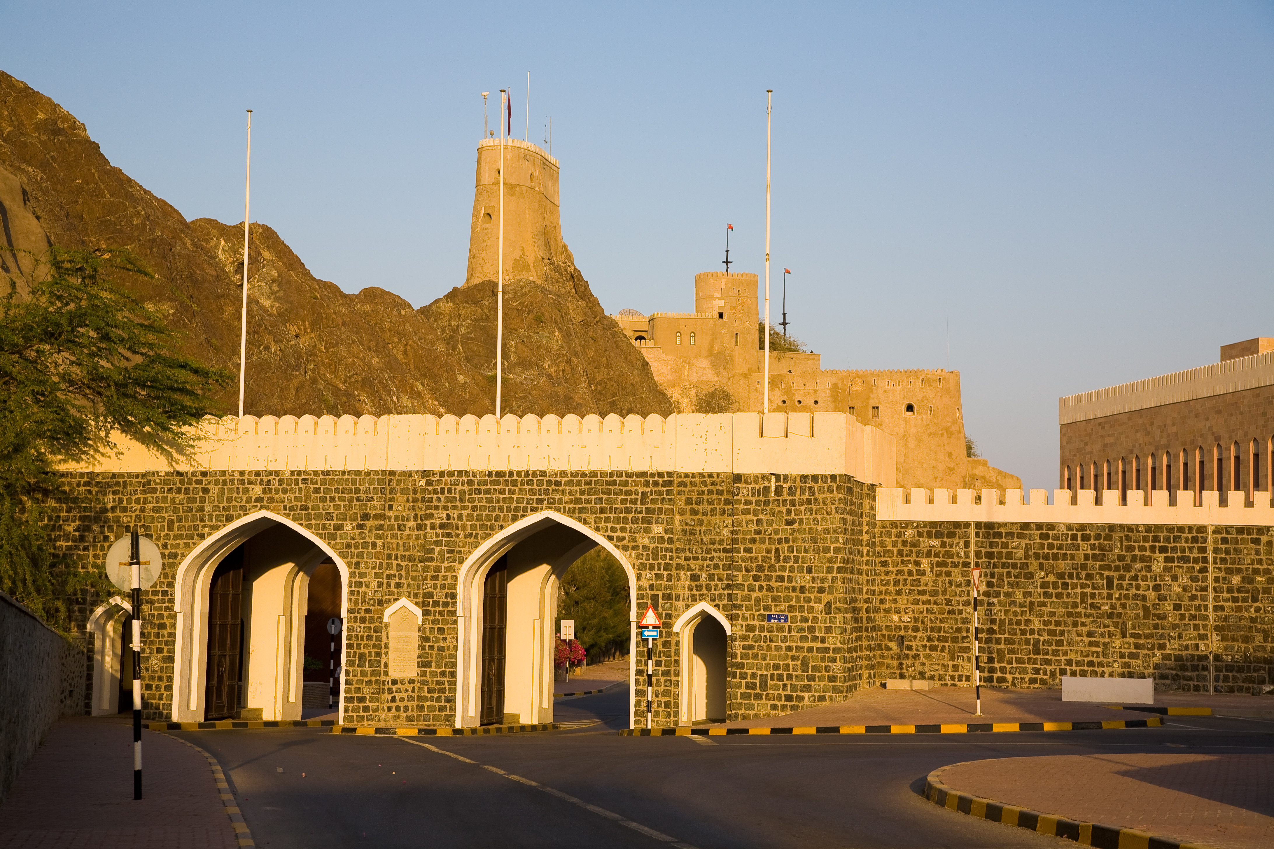 Old Muscat, Oman